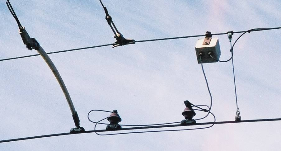 A contact switch on the overhead wire of a tram track in Mannheim, Germany. The pantograph of the tram triggers the contact and for example switches traffic lights. my own photo